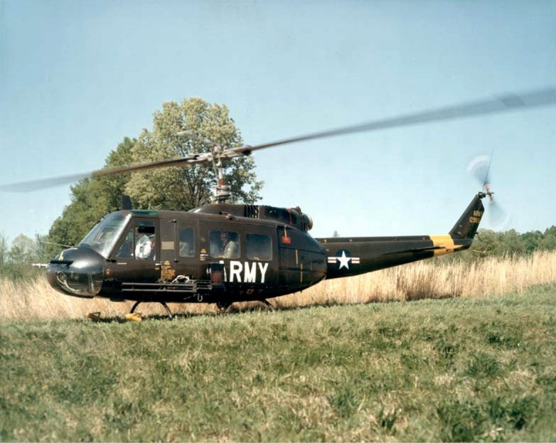 A U.S. Army Bell UH-1D Huey used for tests with a 40 mm grenade launcher ("MICAW-40") on 20 April 1965. Official description: "January to March 63: During this quarter, the U.S. Army Materiel Command (AMC) Aircraft Weaponization Project Office provided the U.S. Army Missile Command (MICOM) with funds for an in-house research and development project on a rocket weapon system for Army helicopters. Although the 40-mm rocket system (the MICOM-40) concept was not selected by the Aircraft Weaponization PM for advanced development, in May 64 the Ground Support Equipment Laboratory was instructed to plan user demonstrations with the system, which had been renamed the Missile Command Automatic Weapon (MICAW)." [1]